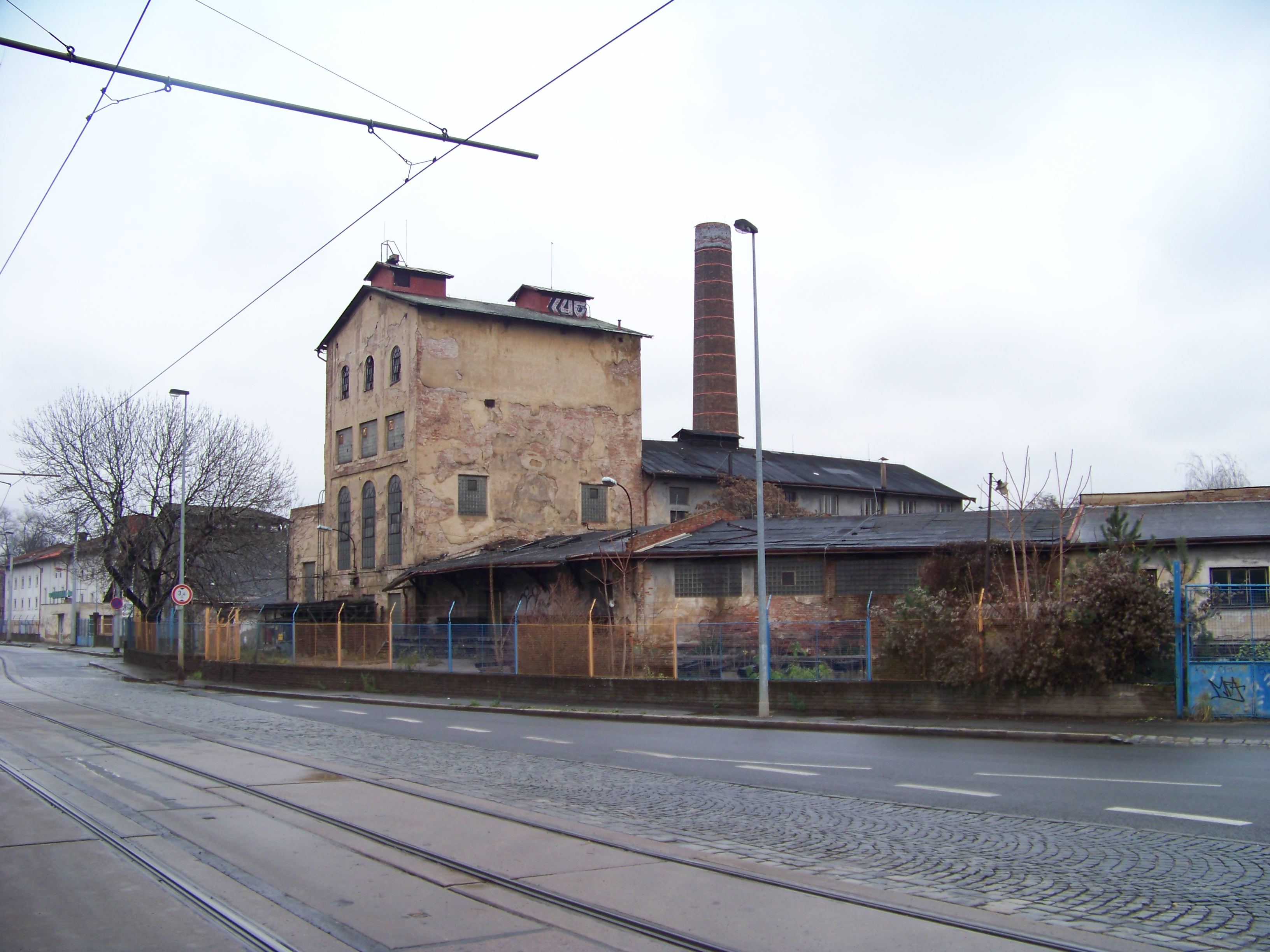 Prague, Smíchov, the Czech Republic. Zlíchov Distillery.